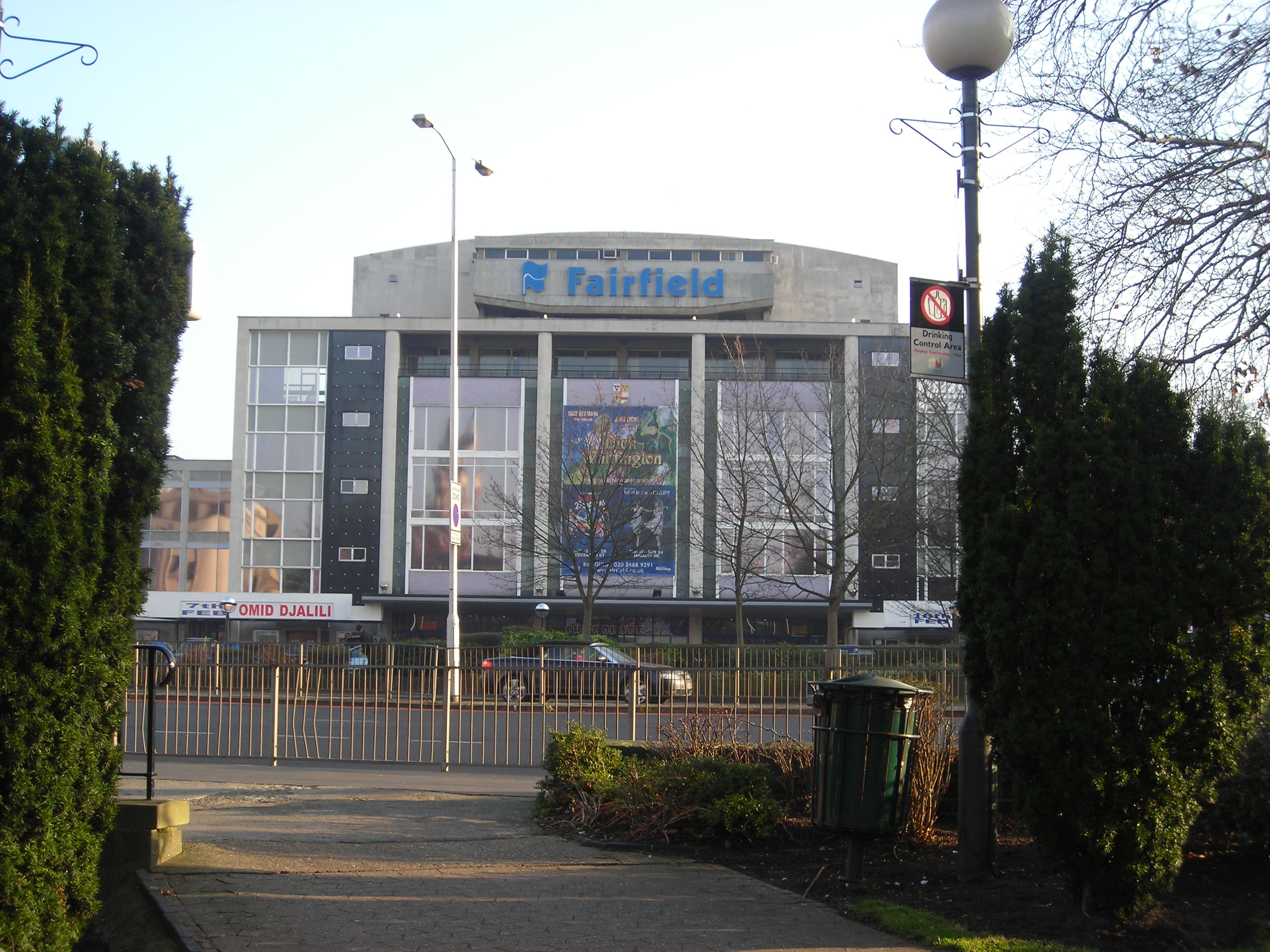 Croydon Fairfield Halls taken in December 2007 from Queen's Gardens across Wellesley Road.